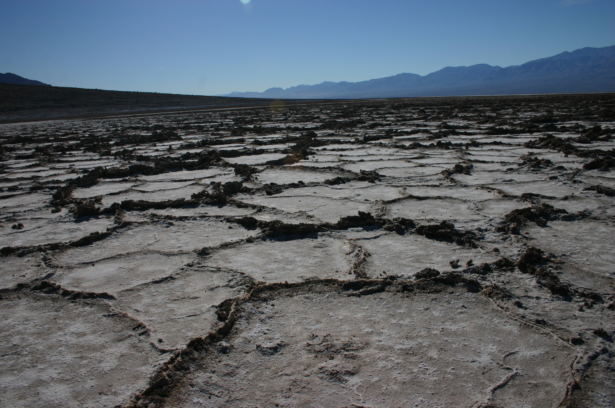 Repeated freeze-thaw and evaporation cycles gradually pushed the thin salt crust into hexagonal honeycomb shapes. The shapes are more evident with the Sun positioned in front of the camera.